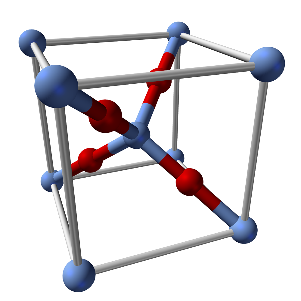 Ball-and-stick model of the unit cell of silver(I) oxide, Ag2O. X-ray crystallographic data from Z Krist. (1922). 57, 253-299.